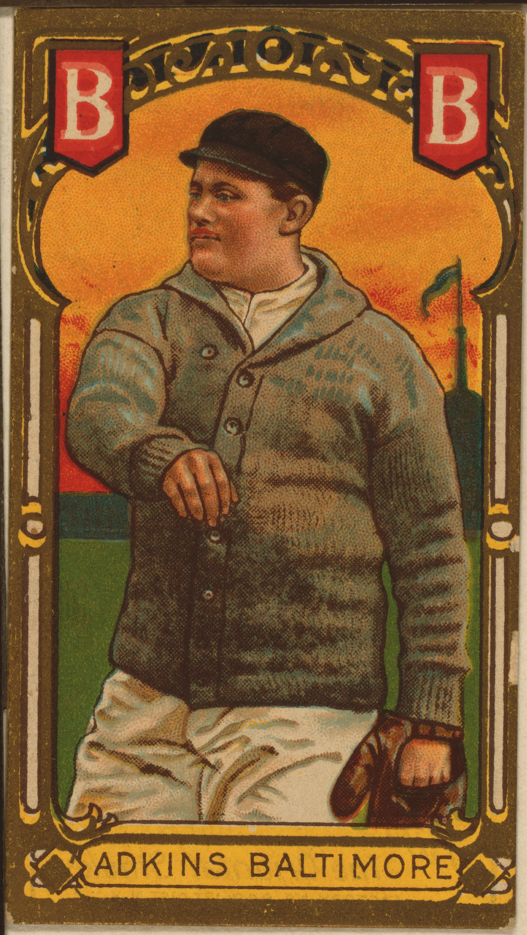 Doctor Merle T. Adkins